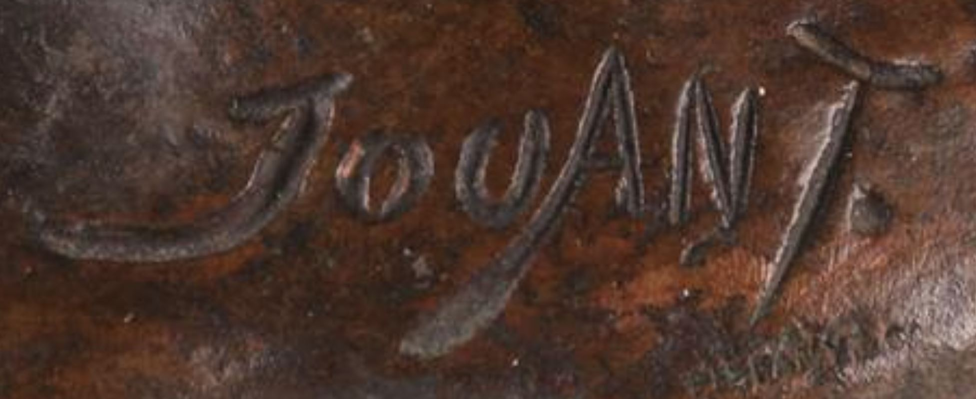 Signature of French sculptor Jules Jouant (1882—1921)